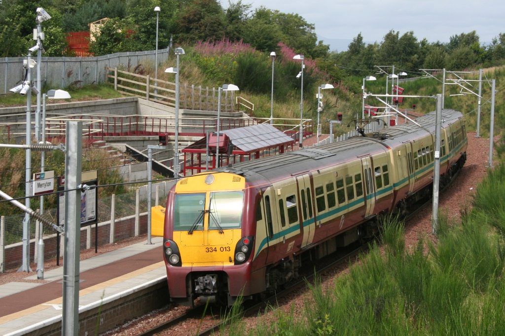 Class 334 013 EMU on a Partick bound train at Merryton railway station on Sunday 24 August 2008 @ 13:27